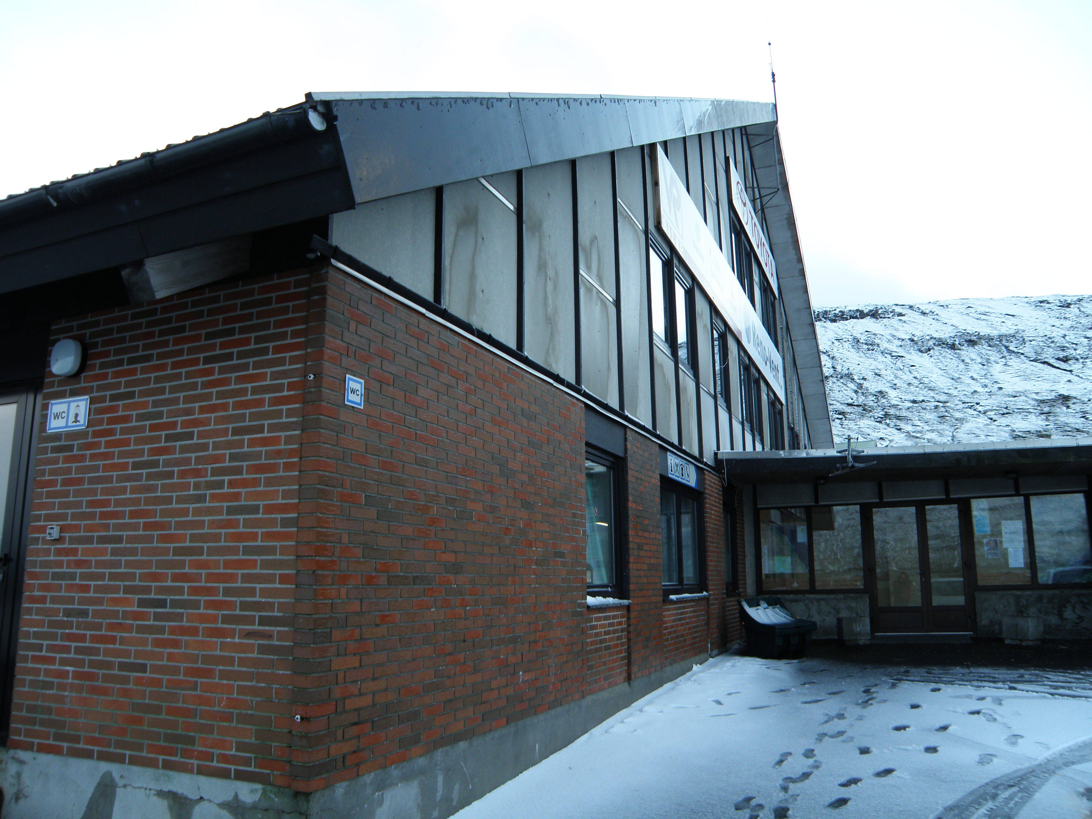 The sports hall in Skáli, Faroe Islands. The home venue of StÍF (handball). Føroyskt: Ítróttarhøllin á Skála, har StÍF í hondbólti spælir sínar heimadystir.